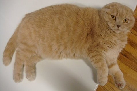 Full body photo of very fat, solid cream Scottish Fold cat, Basil Farrow.